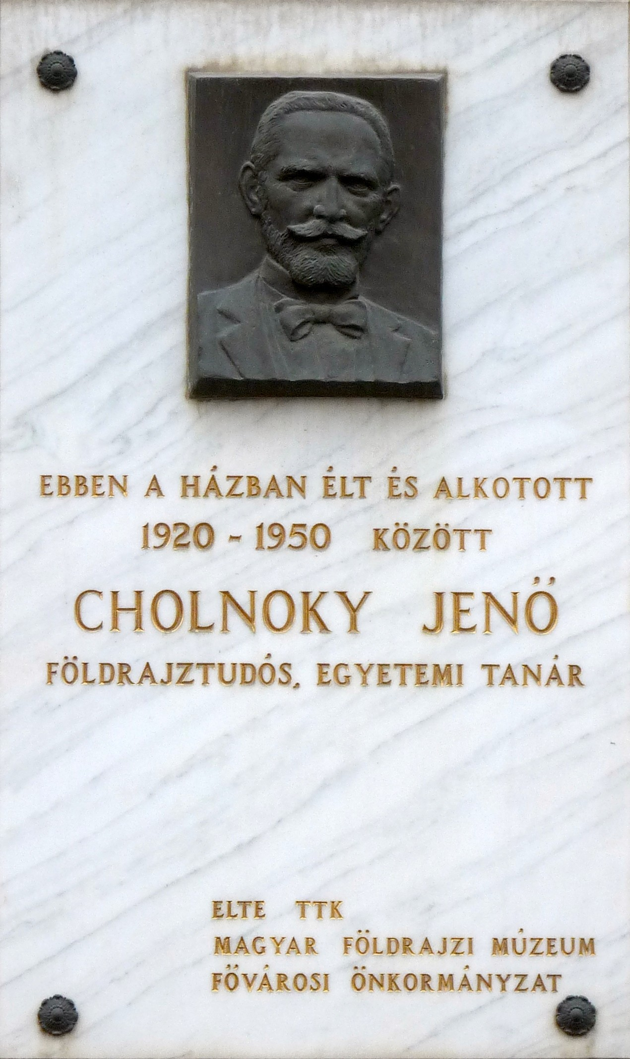 Jenő Cholnoky commemorative plaque with relief in Budapest District VIII, Gyulai Pál Street No 1. The bronze relief was created by the sculptor Béla Domonkos.